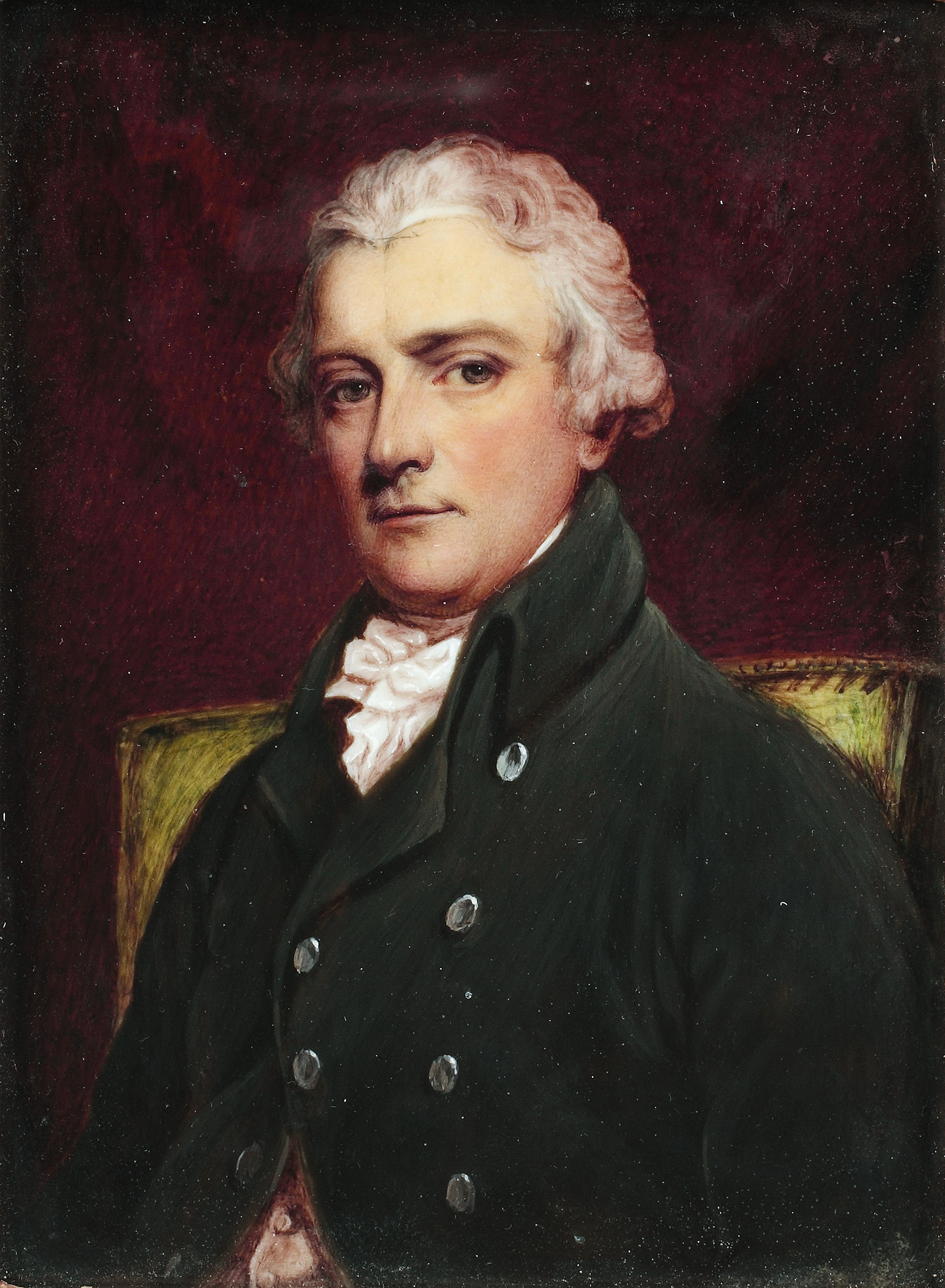 Nicholson Calvert (1764-1841) watercolour on ivory 12.7 cm high inscribed verso: Mr Nicolson Calvert/ of Hundson House/ Hertfordshire, Furneaux/ Pelham Hall, and/ Chilerley Cambridgeshire/ son of Felix Calvert/ & Elizabeth, daughter/ of Sir Robert Ladbroke/ M.P. Lord Mayor/ of London./ Married Jan 9th/ 1789. the Honble/ Frances Pery/ Painted by/ ?.